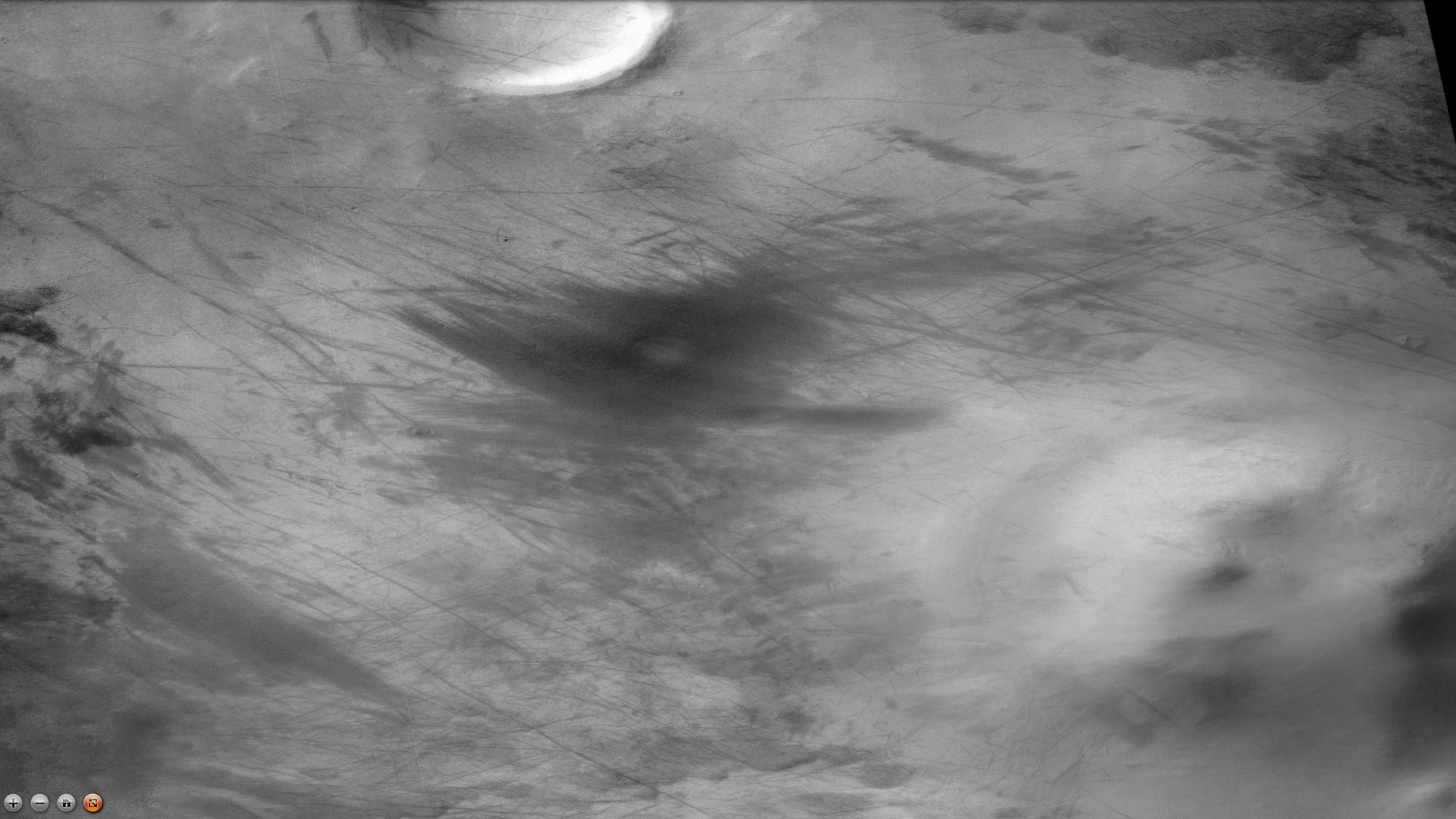 Wright Crater floor with dust devil tracks, as seen by CTX